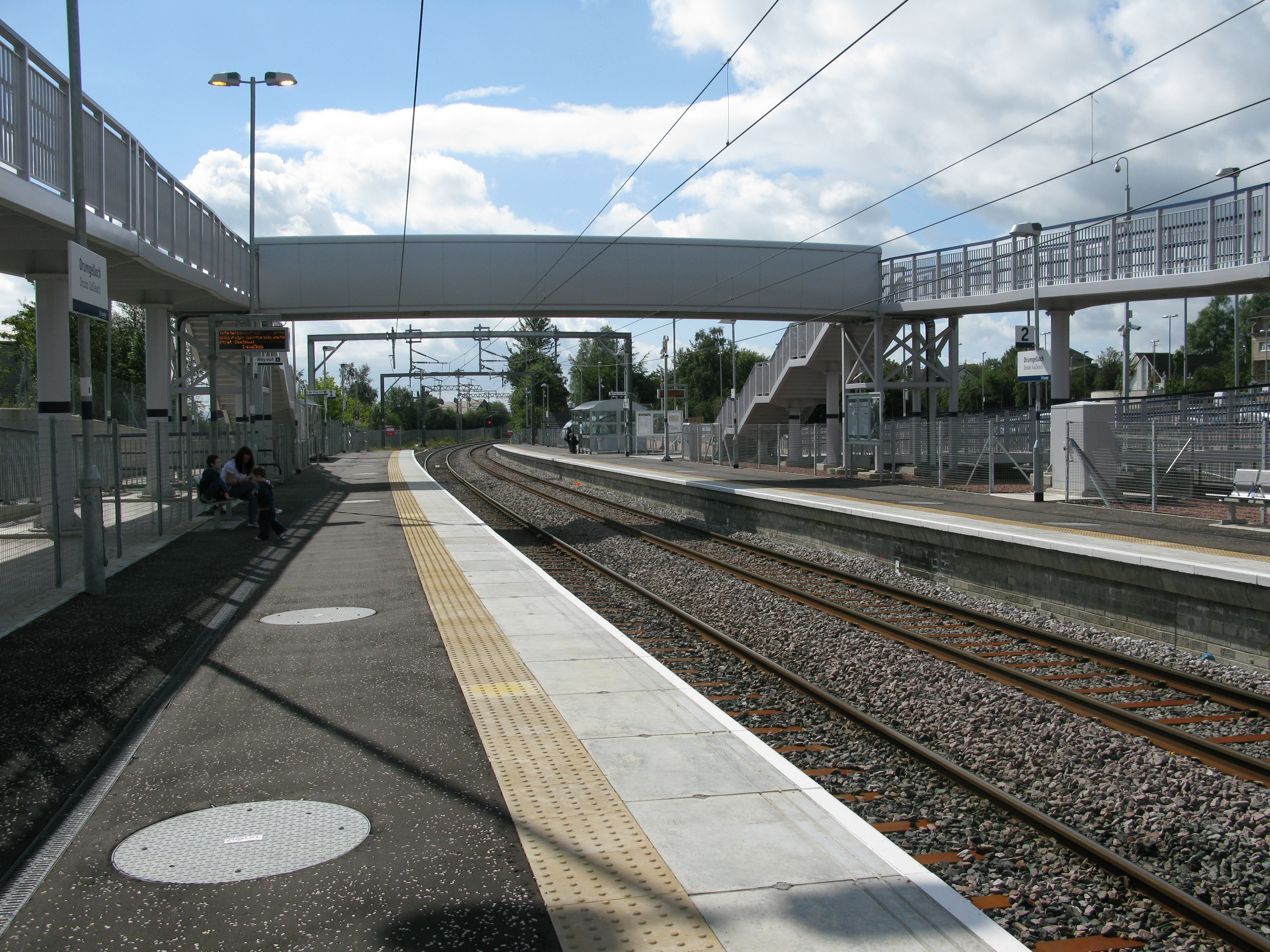 Drumgelloch railway station, looking South-West towards Airdrie